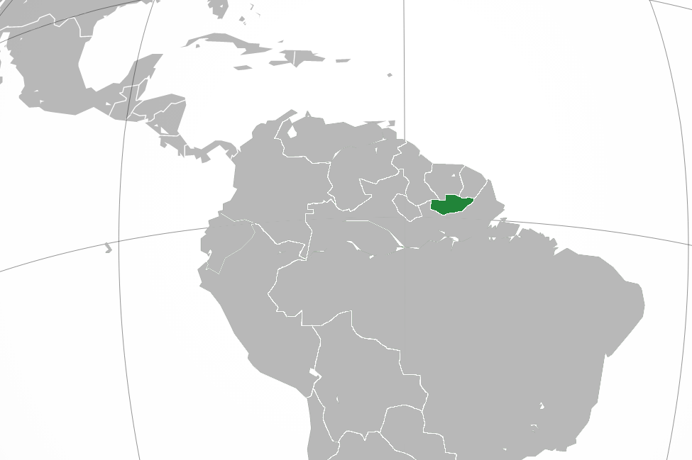 Location of the fictional country in The adventures of Tintin.